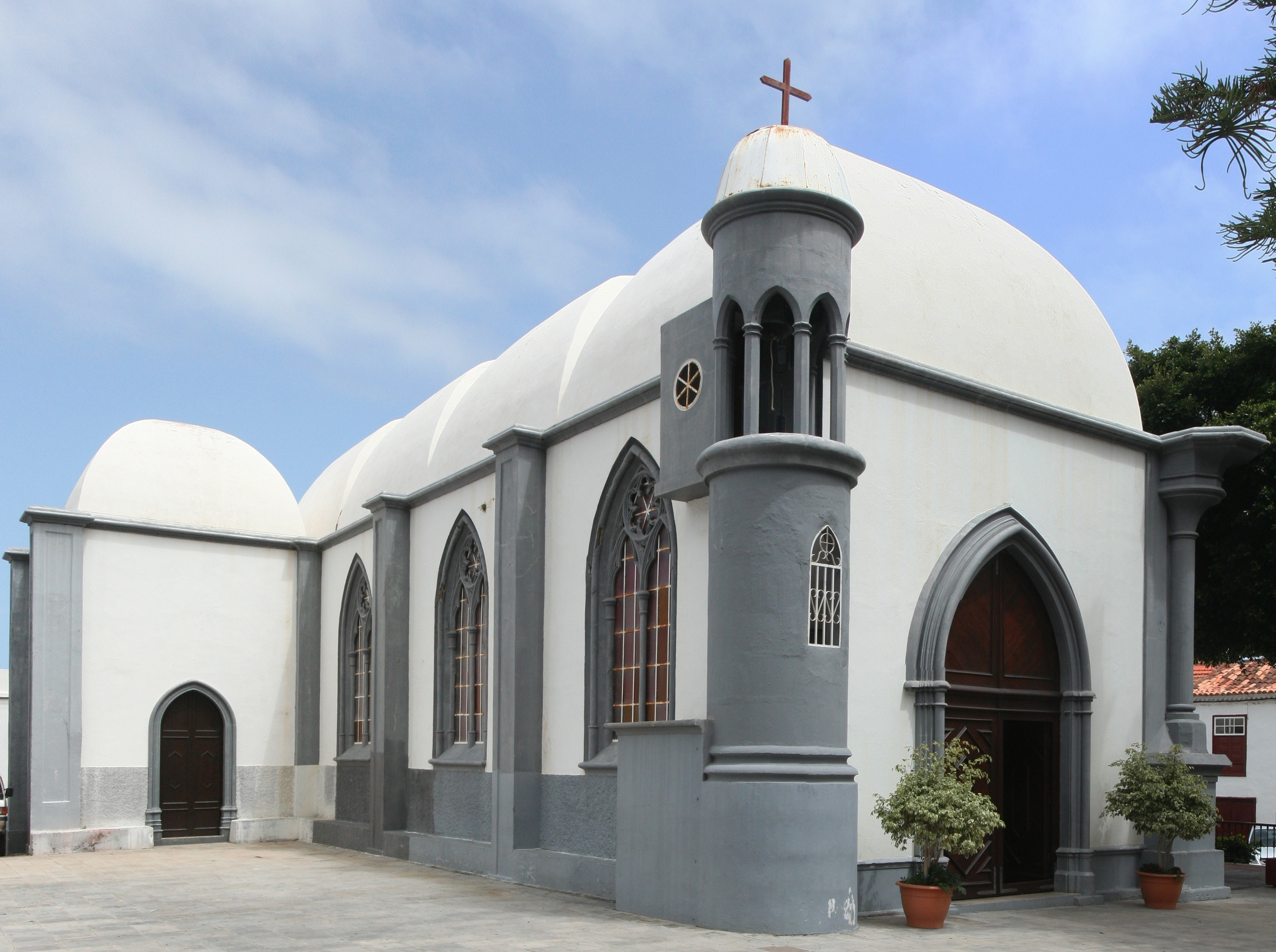 Church in Agulo, La Gomera.